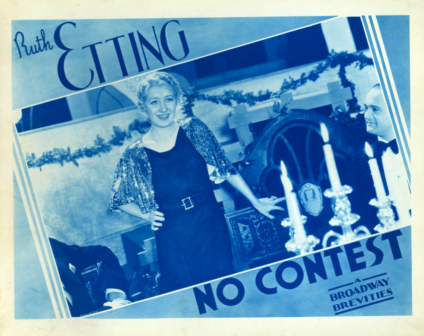 Lobby card for the 1934 film short No Contest starring Ruth Etting.